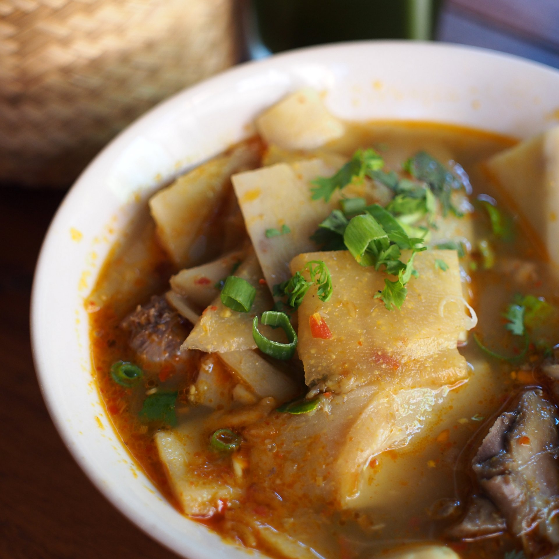 Kaeng yot maphrao sai kai (Thai script: แกงยอดมะพร้าวใส่ไก่) is a Northern Thai curry made with coconut sprouts (somewhat similar in taste to bamboo sprouts but more sweet; they are also known as "heart of palm") and chicken.